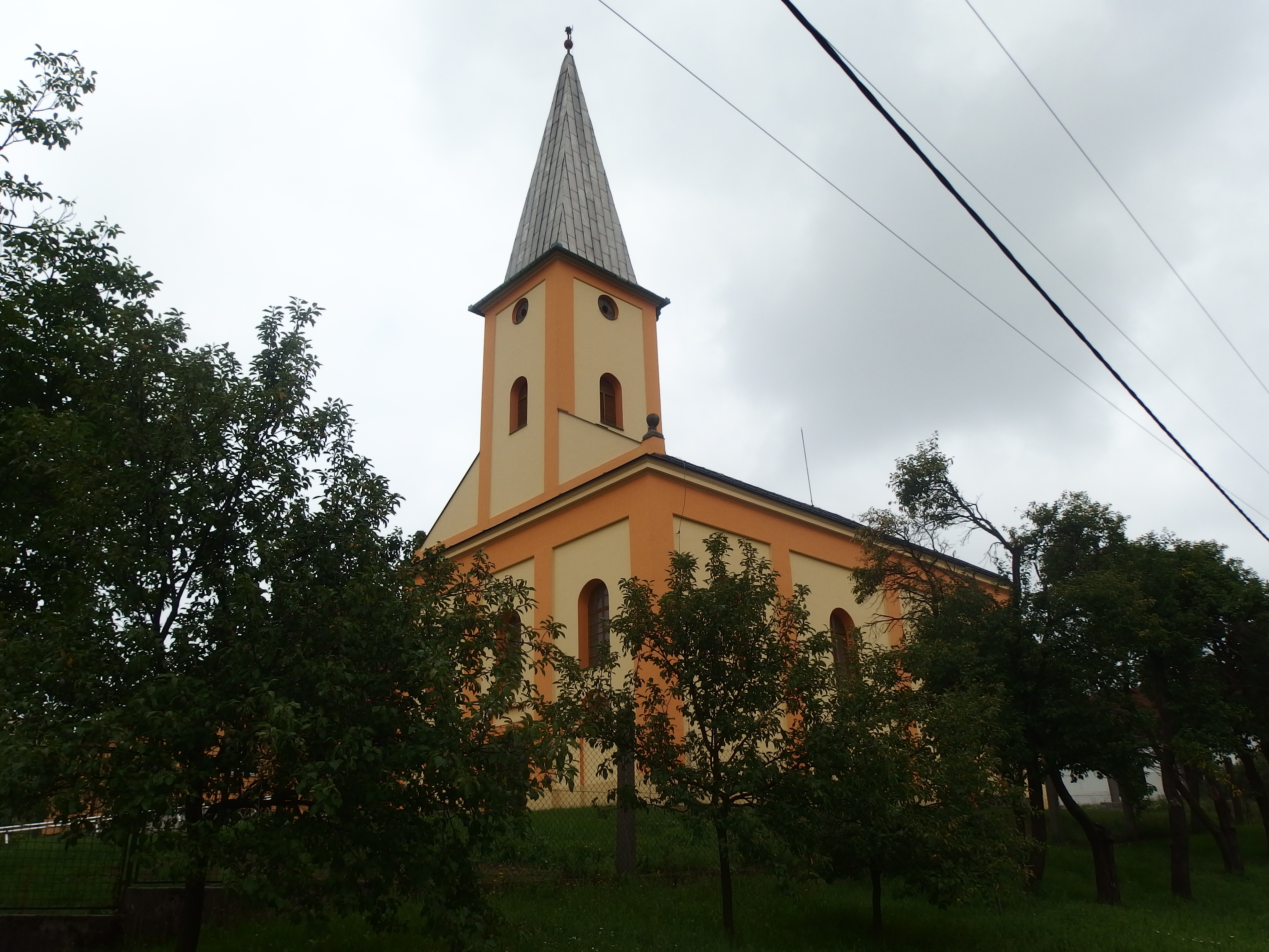 Prusinovice, Kroměříž District, Czech Republic. Evangelical church.